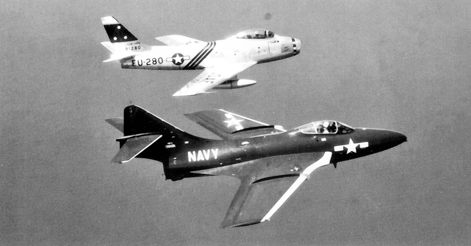 75th Fighter-Interceptor Squadron North American F-86A-5-NA Sabre 49-1280 flying with a Navy Grumman F9F-6 Cougar over Long Island, 1952. The F9F-6 Cougar was the first F9F variant with swept wings